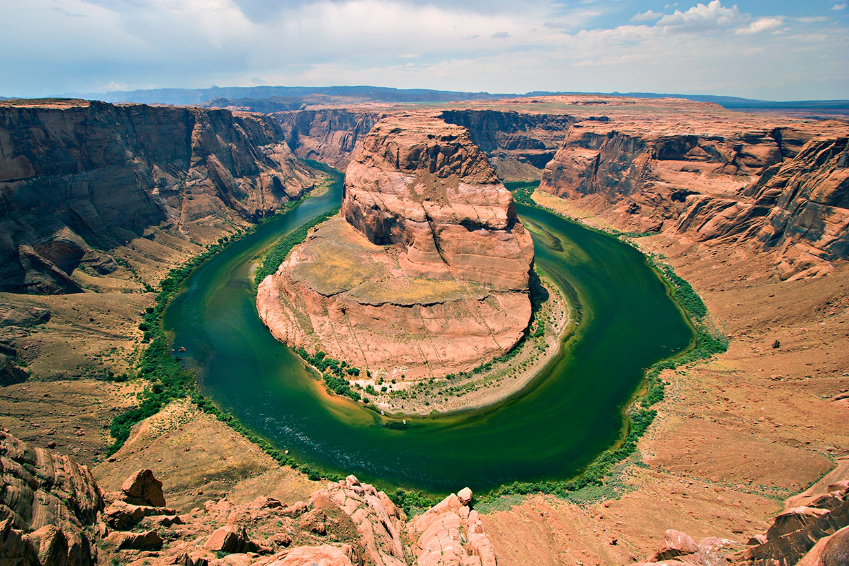 Horseshoe Bend, Arizona in Glen Canyon National Recreation Area as seen from the lookout point